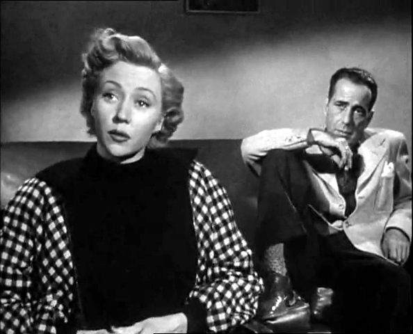 Screenshot from trailer for the movie In a Lonely Place (1950), featuring stars Gloria Grahame and Humphrey Bogart. Gloria Grahame (left) and Humphrey Bogart (right).